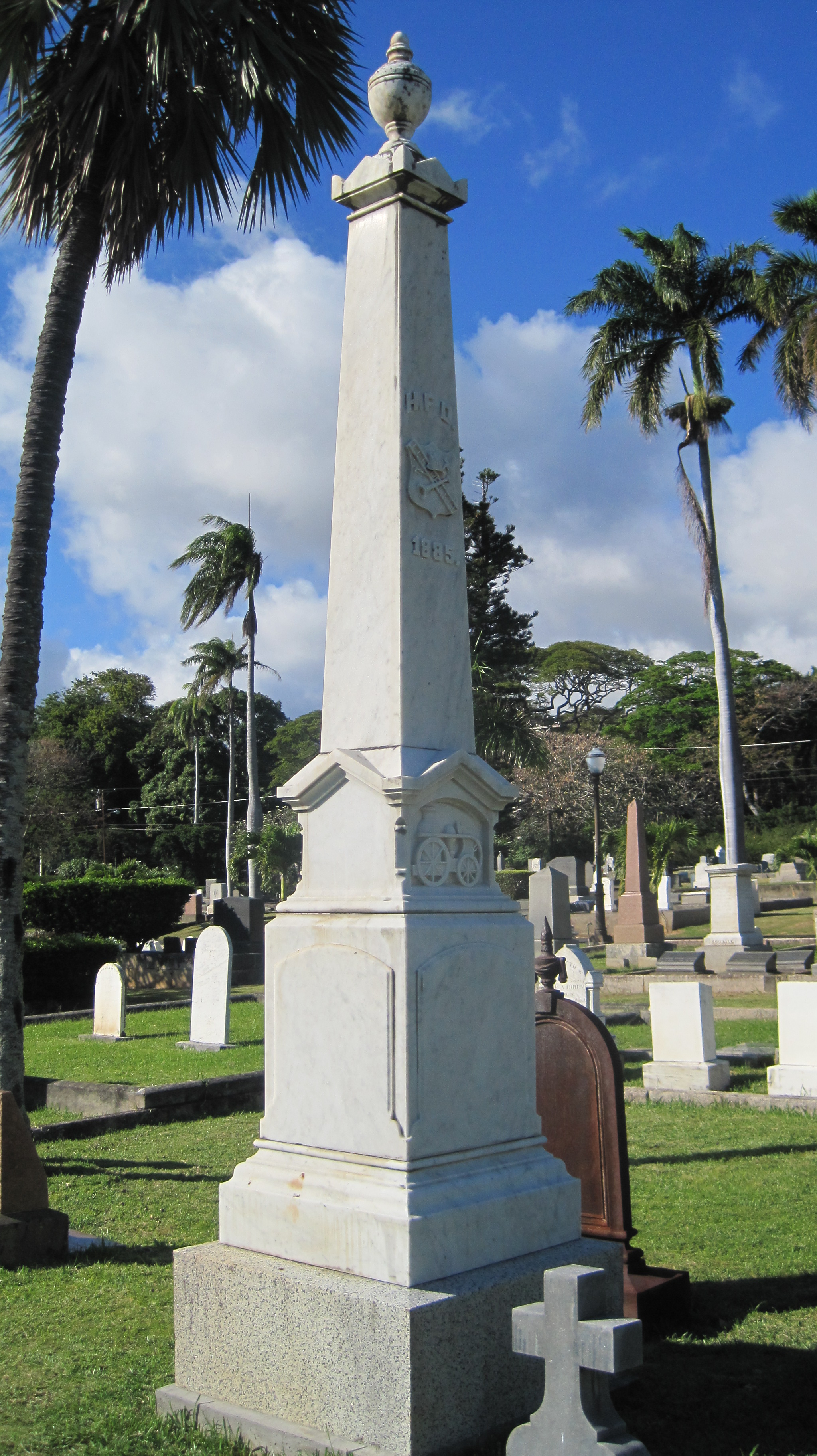 Honolulu Fire Department memorial, Oahu Cemetery, Honolulu, Hawaii